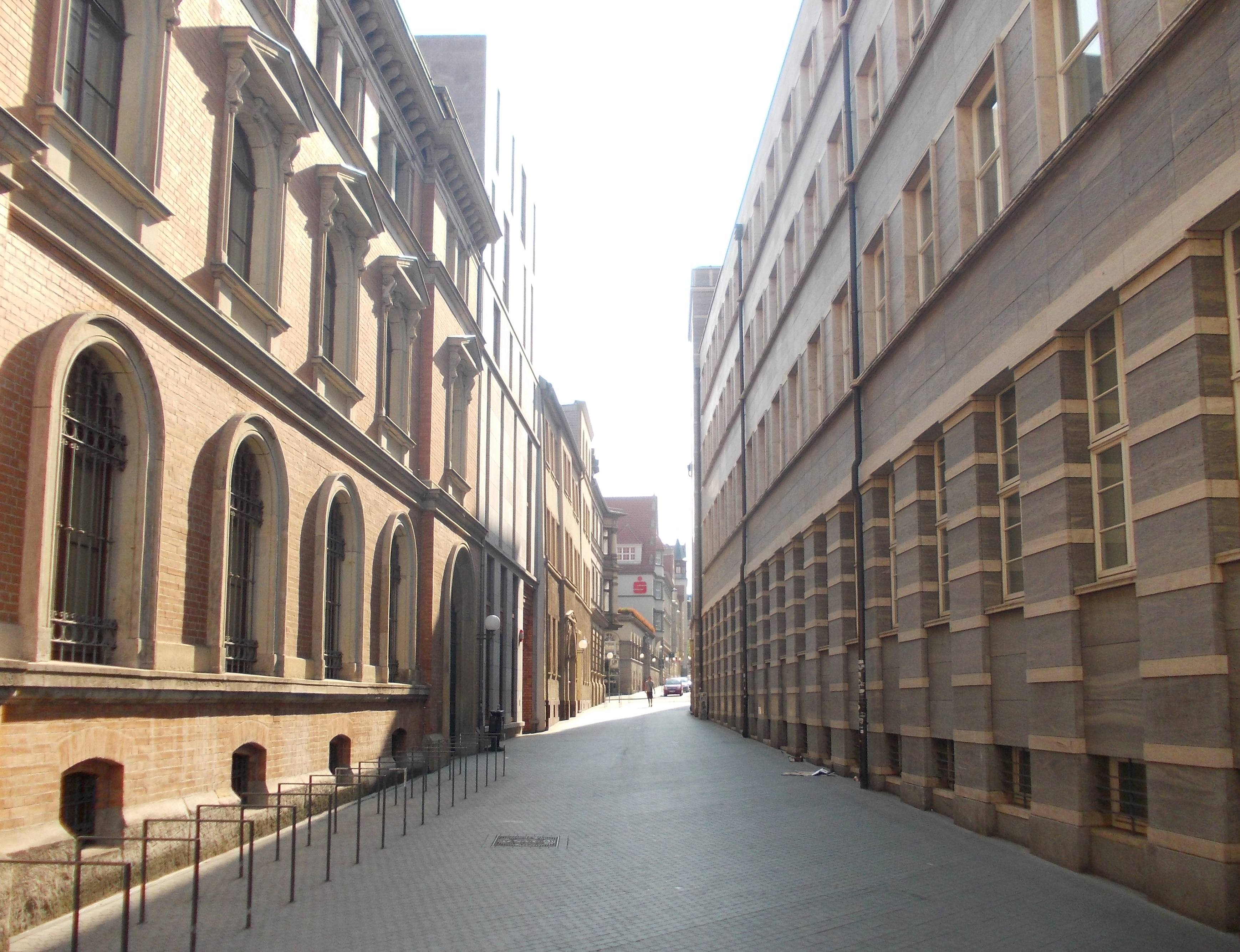 Rathausstrasse in Halle/Saale (Saxony-Anhalt)